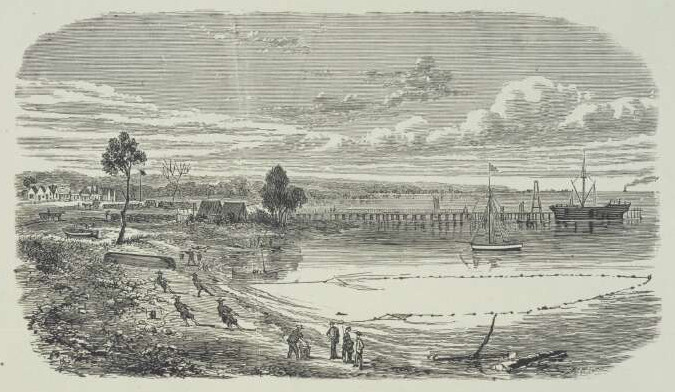 Sketch of fisherman on the beach at Frankston in 1873, with its pier and the early village in the background (print, wood engraving).